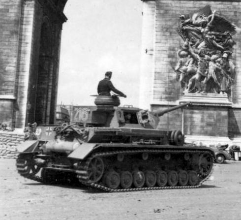 Title: Paris, Panzer IV der LSSAH vor Triumphbogen Extra information: Frankreich, Paris.- Parade der Waffen-SS-Division "LSSAH" (Leibstandarte-SS Adolf Hitler), Panzer IV vor dem Triumphbogen (Arc de Triomphe); SS-PK Factual corrections and alternative descriptions are encouraged separately from the original description. Additionally errors can be reported at this page to inform the Bundesarchiv. Original historic description